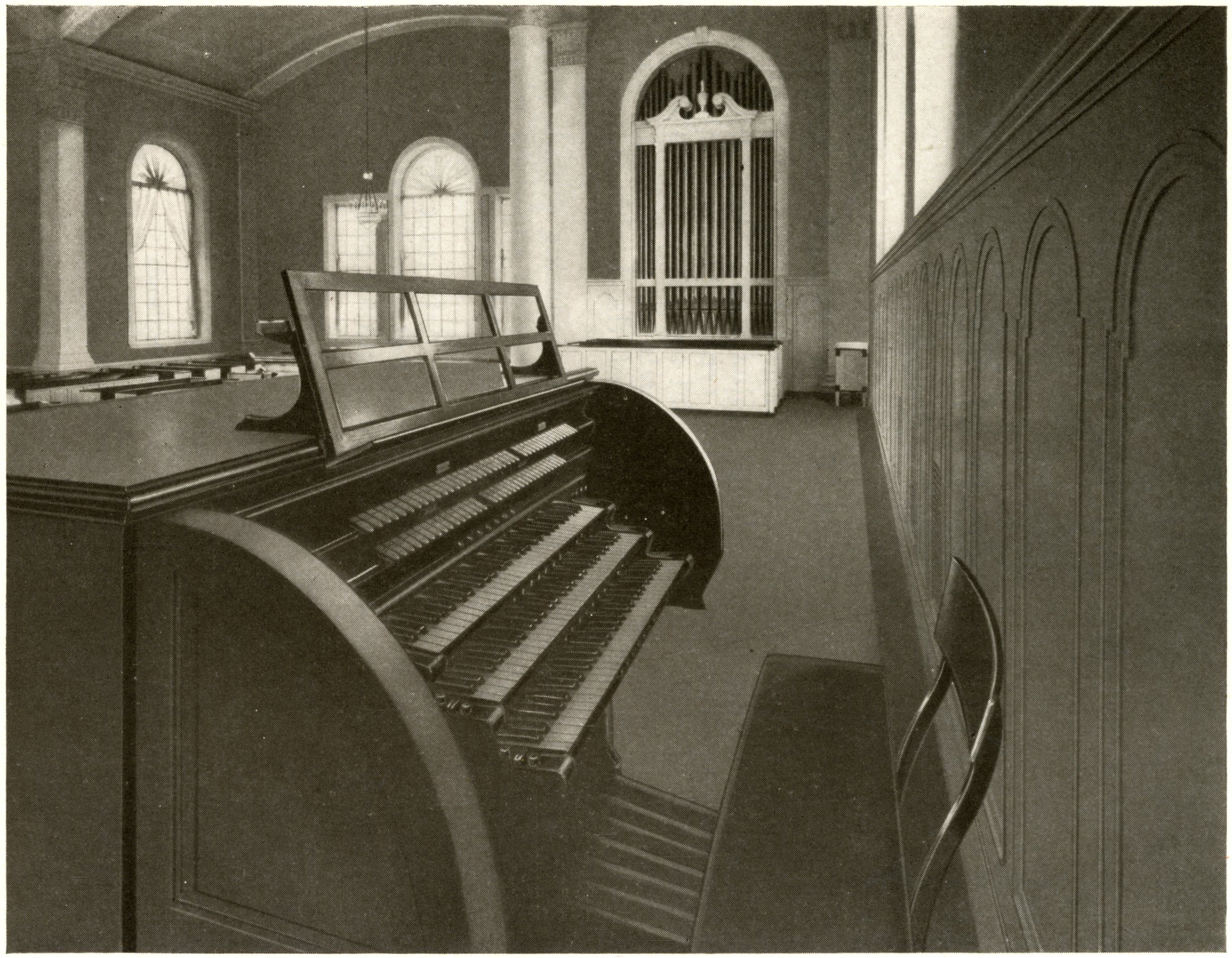 Originally installed three-manual, electro-pnuematic Welte-Mignon Philharmonic Pipe Organ at Ira Allen Chapel, University of Vermont (circa 1927).